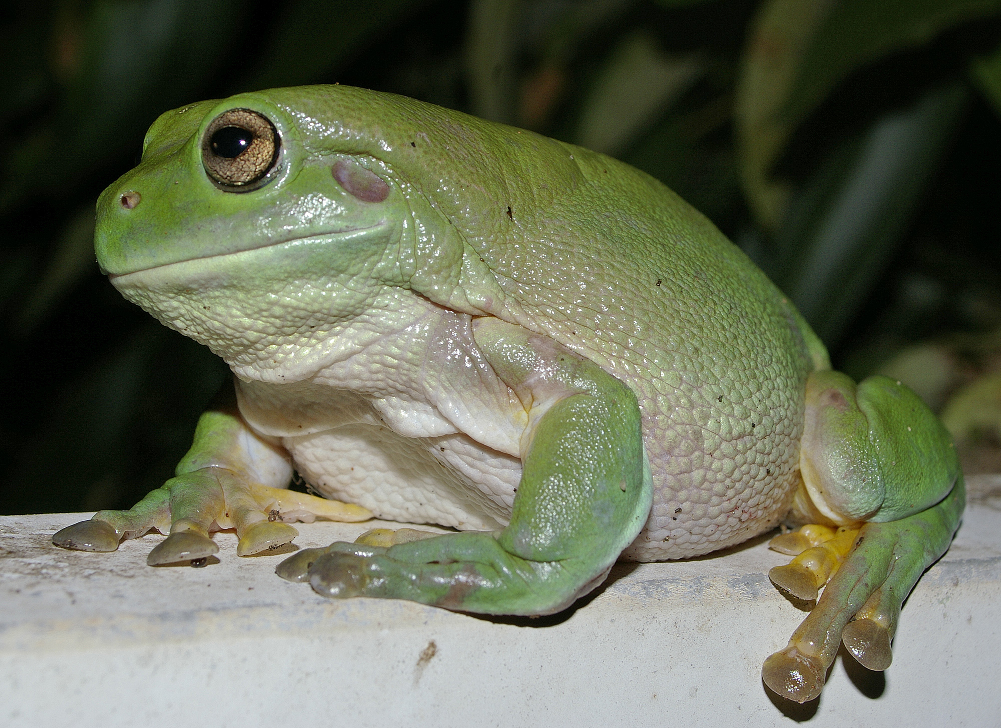 Litoria caerulea, Green Tree Frog, female. Darwin, Northern Territory. Because this photograph concerns privacy since this was taken on a private property, only an approximate location is provided: Leanyer, Northern Territory, Australia